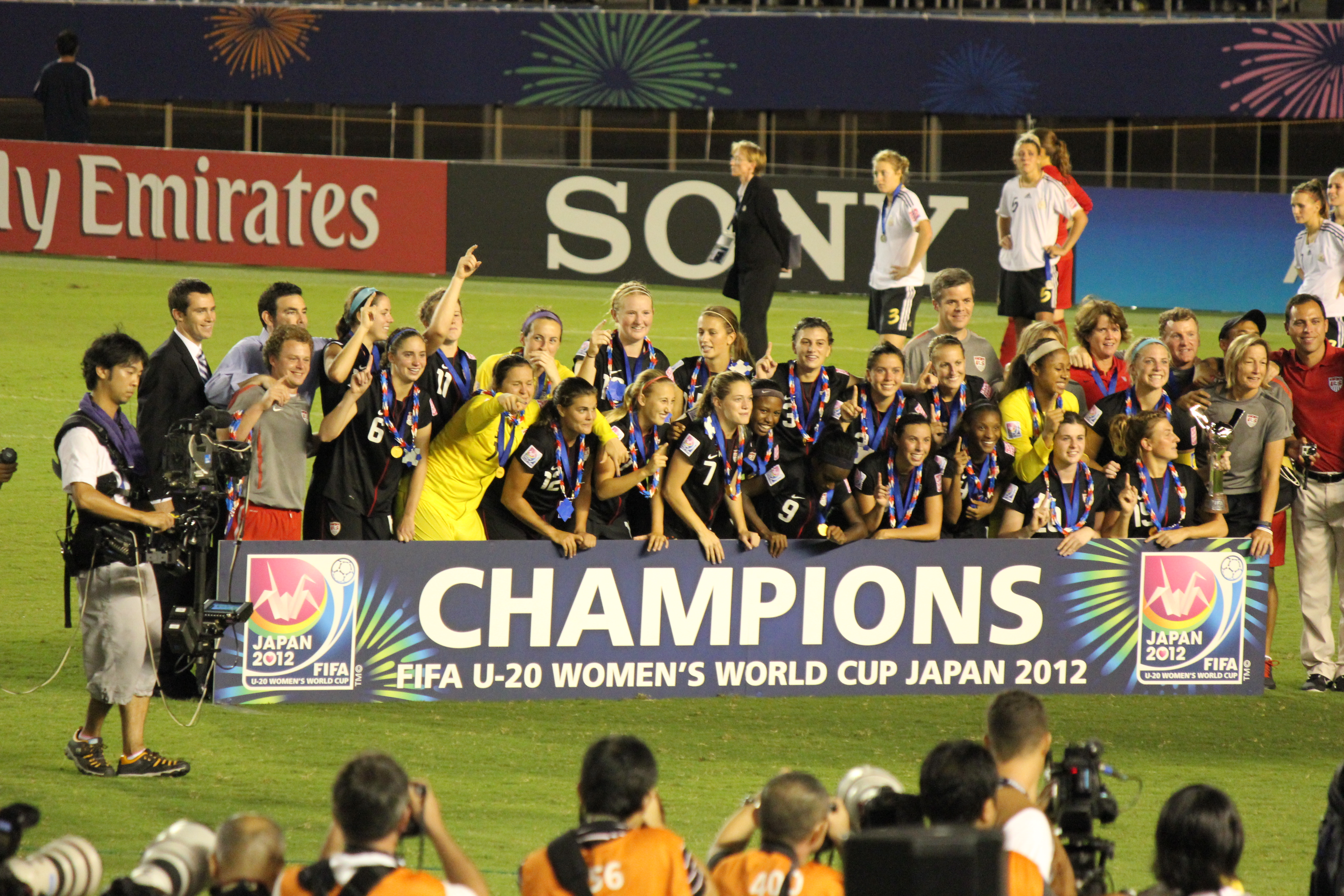 USA national Team at FIFA U20 WIMEN'S WORLD CUP JAPAN 2012; Players from left to right, front row: 6—Morgan Brian, 1—Bryane Heaberlin (GK), 12—Katie Stengal, 17—Taylor Schram, 7—Kealia Ohai, 5—Maya Hayes, 9—Chioma Ubagagu, 10—Vanessa Di Bernado, 4—Crystal Dunn, 20—Kelly Cobb, 15—Kasey Kallman; back row: 19—Stacey Amack, 11—Becca Wann, 21—Jami Kranich (GK), 13—Samantha Mewis, 14—Mandy Laddish, 3—Cari Roccaro, 2—Mollie Pathman, 16—Sarah Killion, 18—Abby Smith (GK), 8—Julie Johnston ; behind Johnston and further right: Steve Swanson (head Coach).